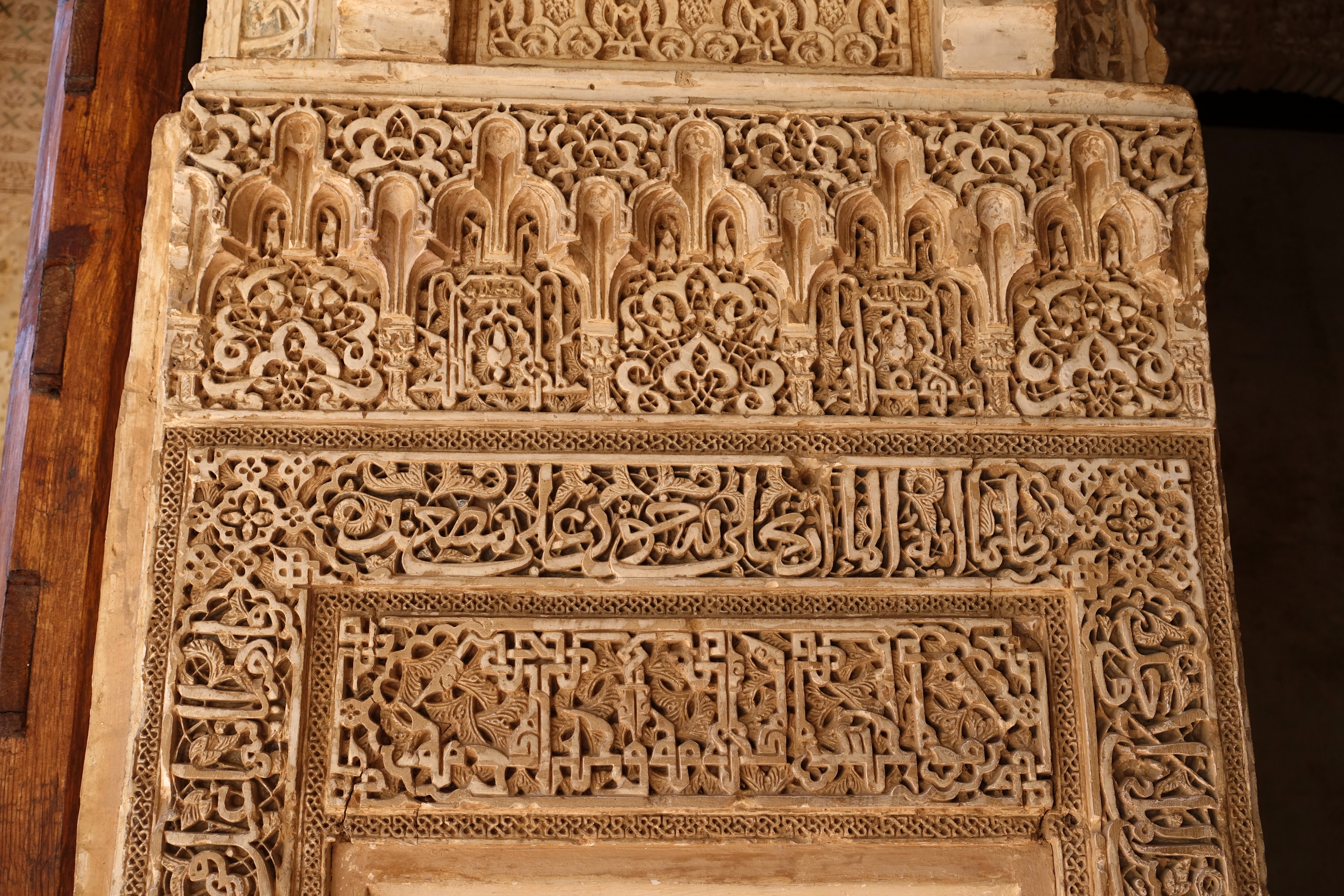 Mirador de Ismail (Generalife) - Granada, Spain.